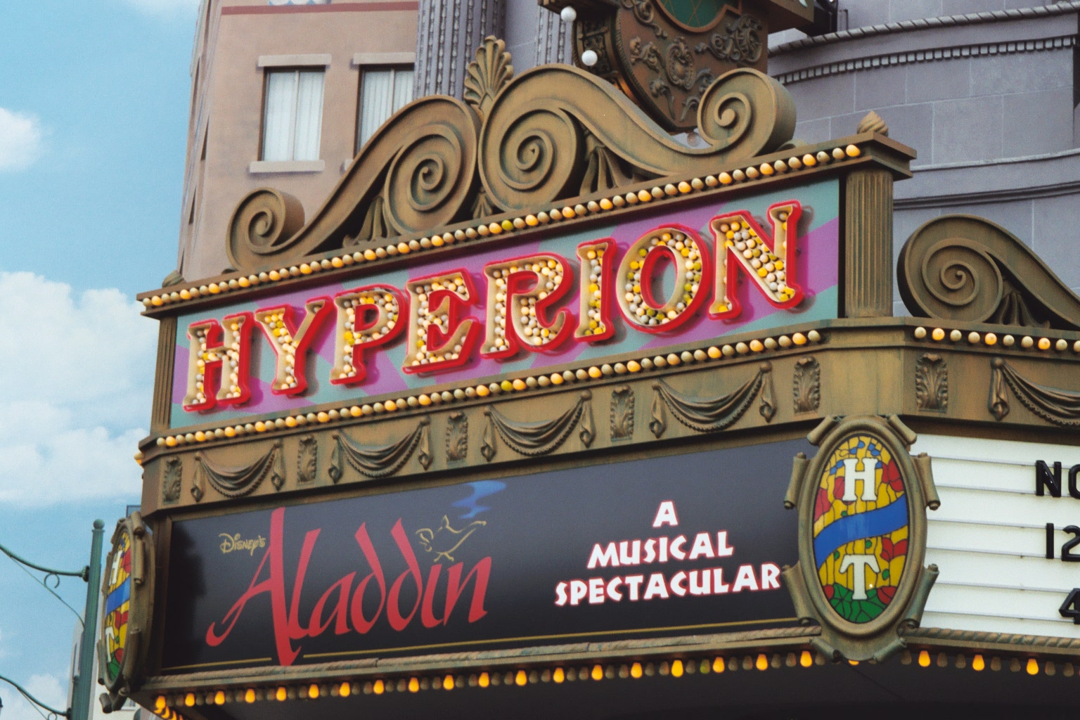 Marquee of the Hyperion Theater @ Disney's California Adventure theme park in Anaheim California.